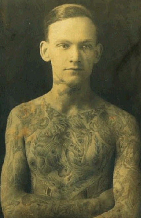 Tattooist Amund Dietzel 1914